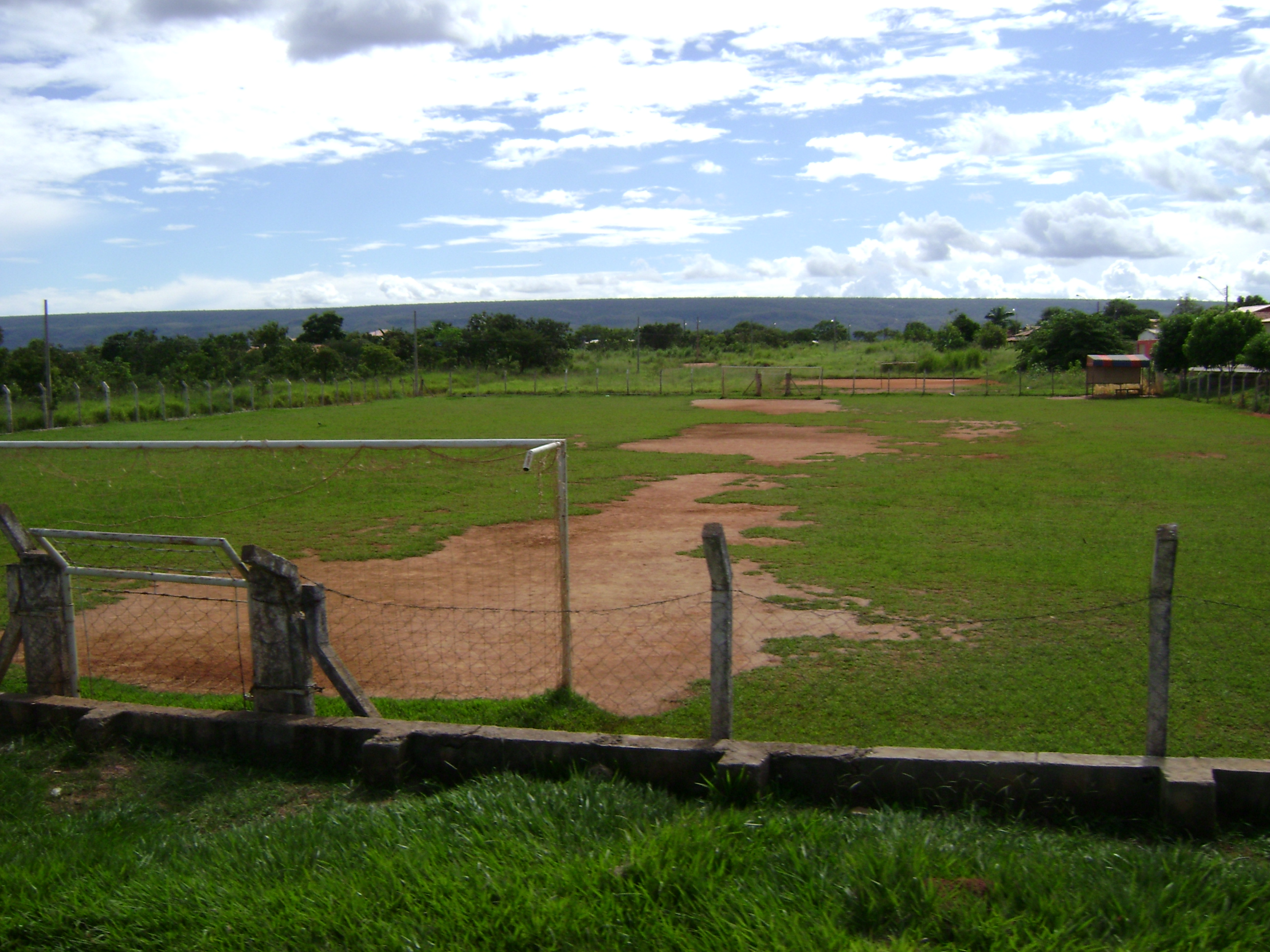 Simple association football field in Caldas Novas, Goiás, Brazil.